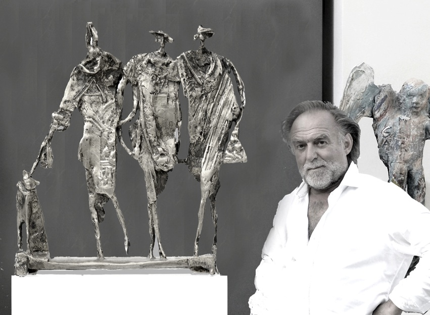 EG_Neustifter05